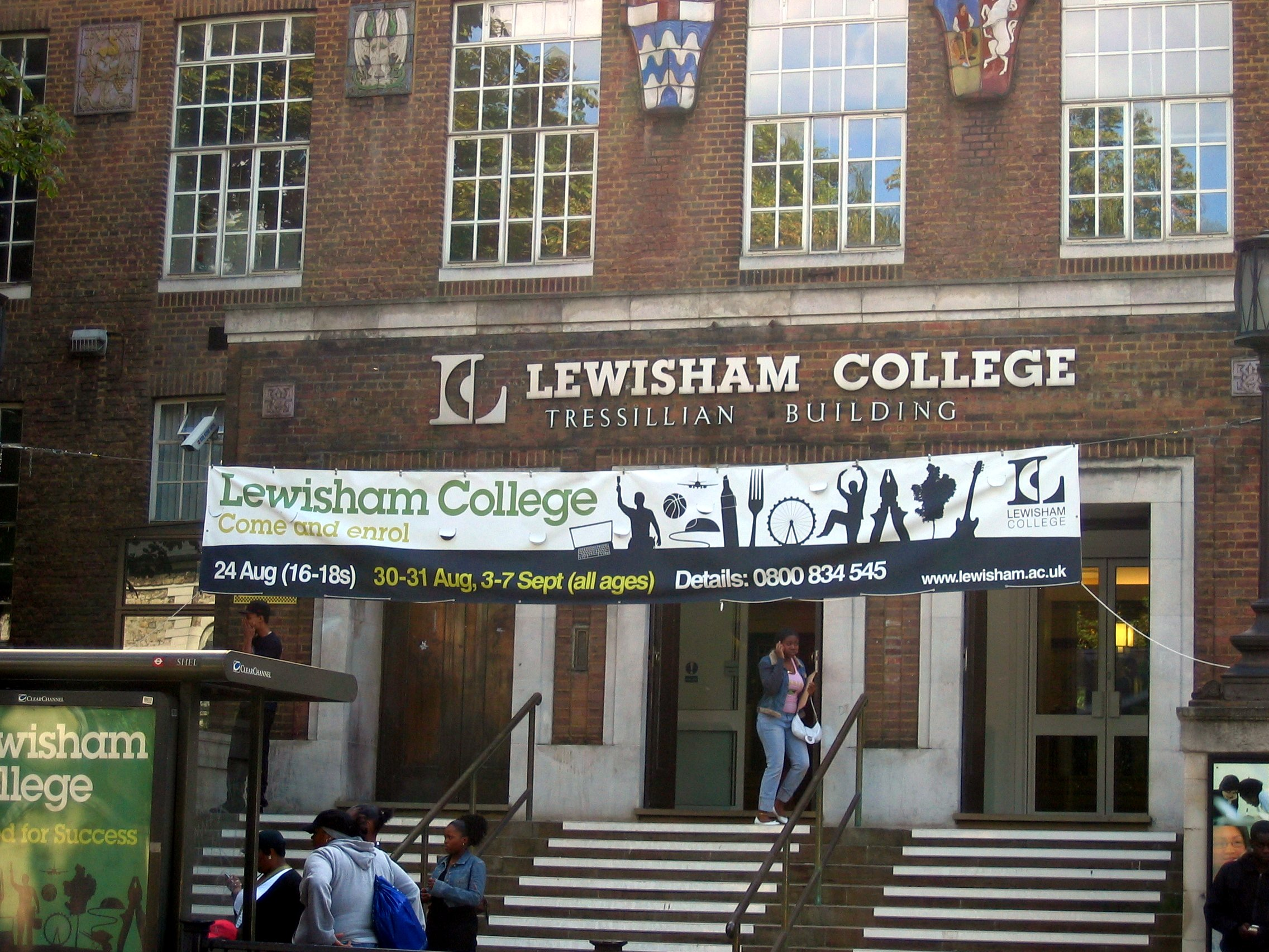 Lewisham College, Tressilian Building, New Cross, London.